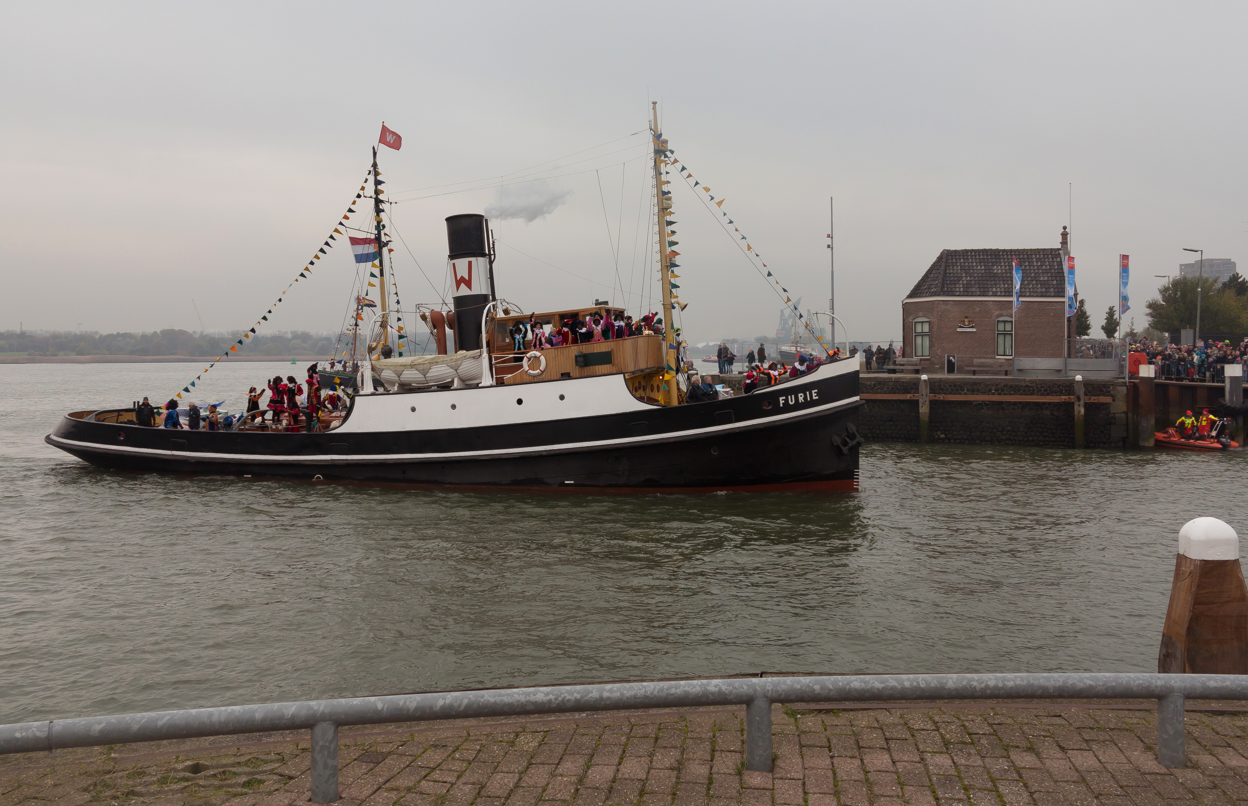 Nationale Intocht Sinterklaas in Maassluis, sleepboot de Furie met Zwarte Pieten